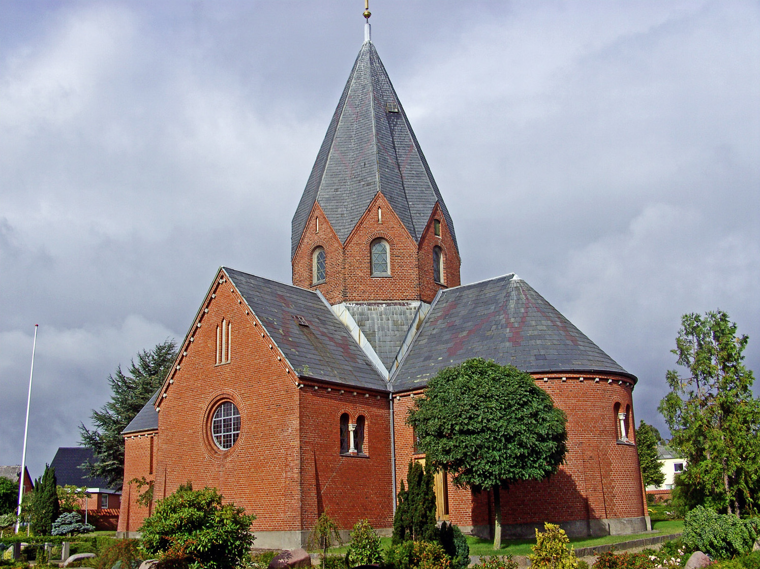 Hadsund church in Mariagerfjord from the south east